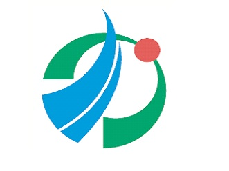 Flag of Kama Fukuoka